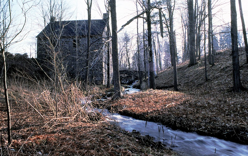 Mont-Saint-Bruno National Park's old mill (Vieu Moulin).